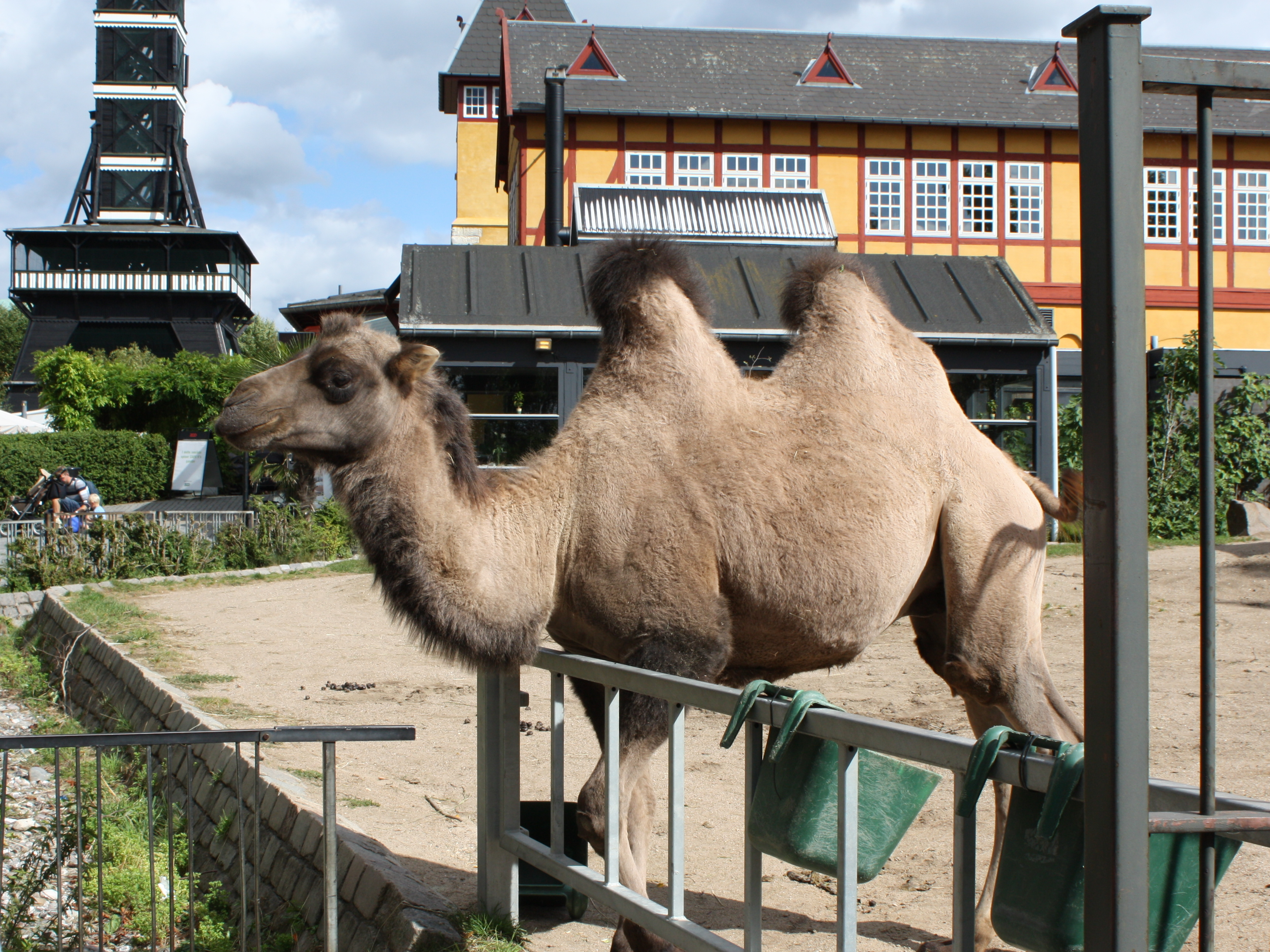 Casual camel, One of the camels in the Copenhagen Zoo. Copenhagen